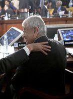 United States President George Bush and Ecuador President Alfredo Palacio (right).